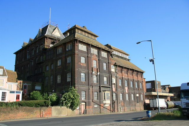 Cliff Brewery, Ipswich Former home of Tollemache and Cobbold. Home to a small E R & F Turner steam engine.